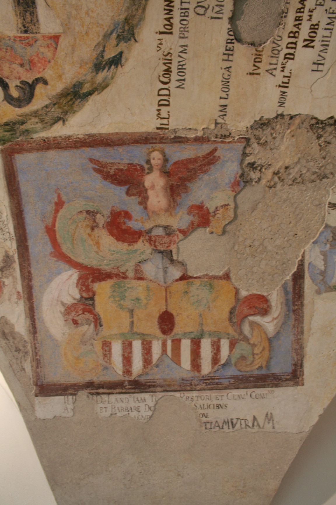 My photo (R. de SalisRodolph (talk) 23:31, 28 August 2013 (UTC)) of the mural in Chiavenna's old town hall, photo 2009.